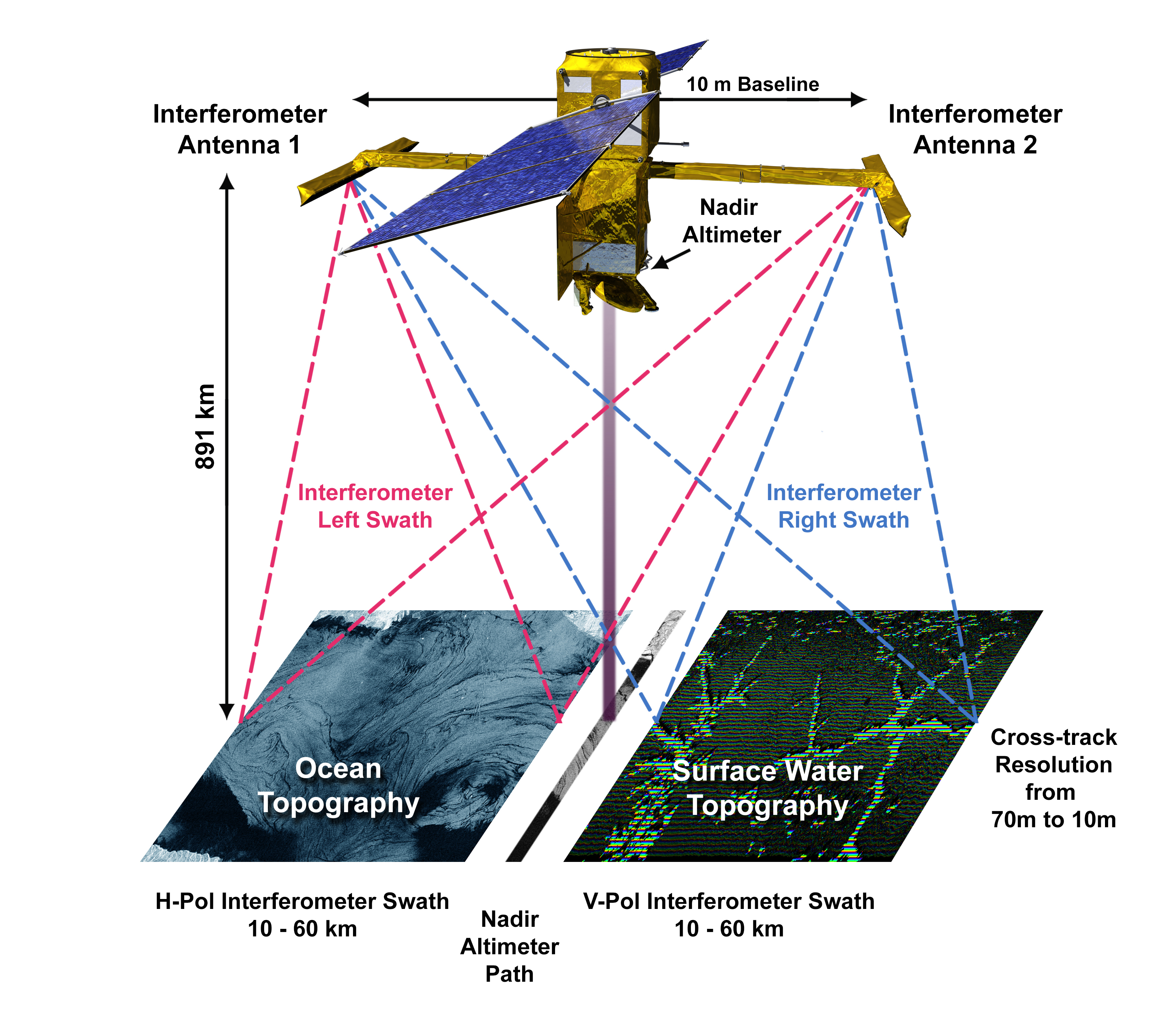 diagram illustrating the swaths of data that SWOT will collect. The interferometer will produce two parallel tracks, with a Nadir track from a traditional altimeter in the gap between the swaths. The overall width of the swaths will be approximately 120 km.